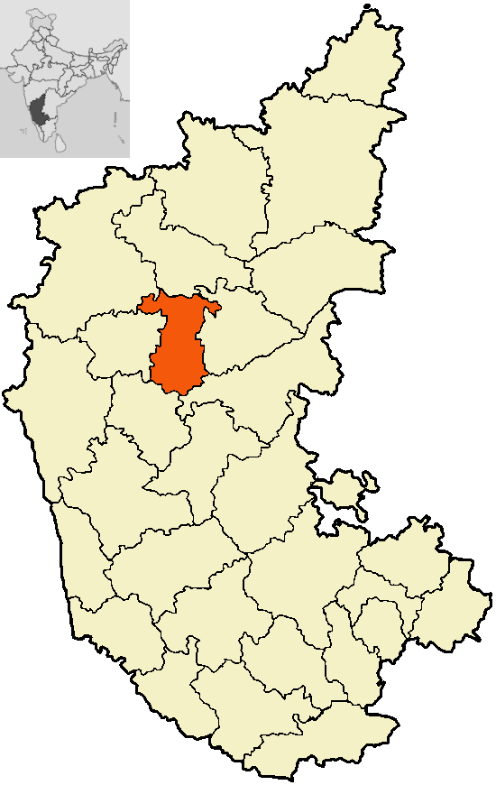 Locator map of Gadag district, Karnataka, India